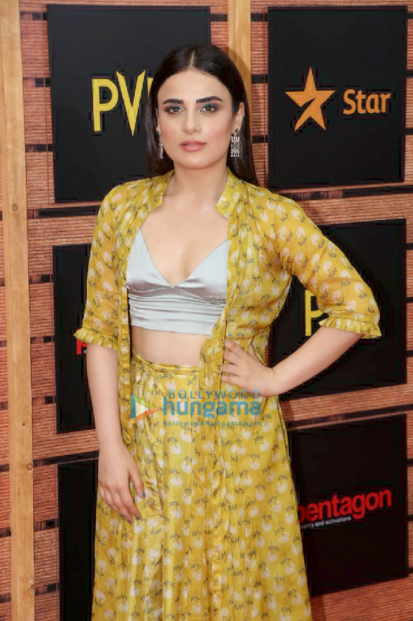 Radhika Madan graces the Jio MAMI Mumbai Film Festival 2019